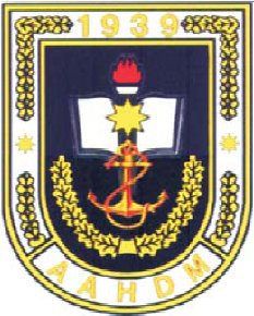 Emblem of the "Azerbaijanien Officer's Naval High School" in Baku..